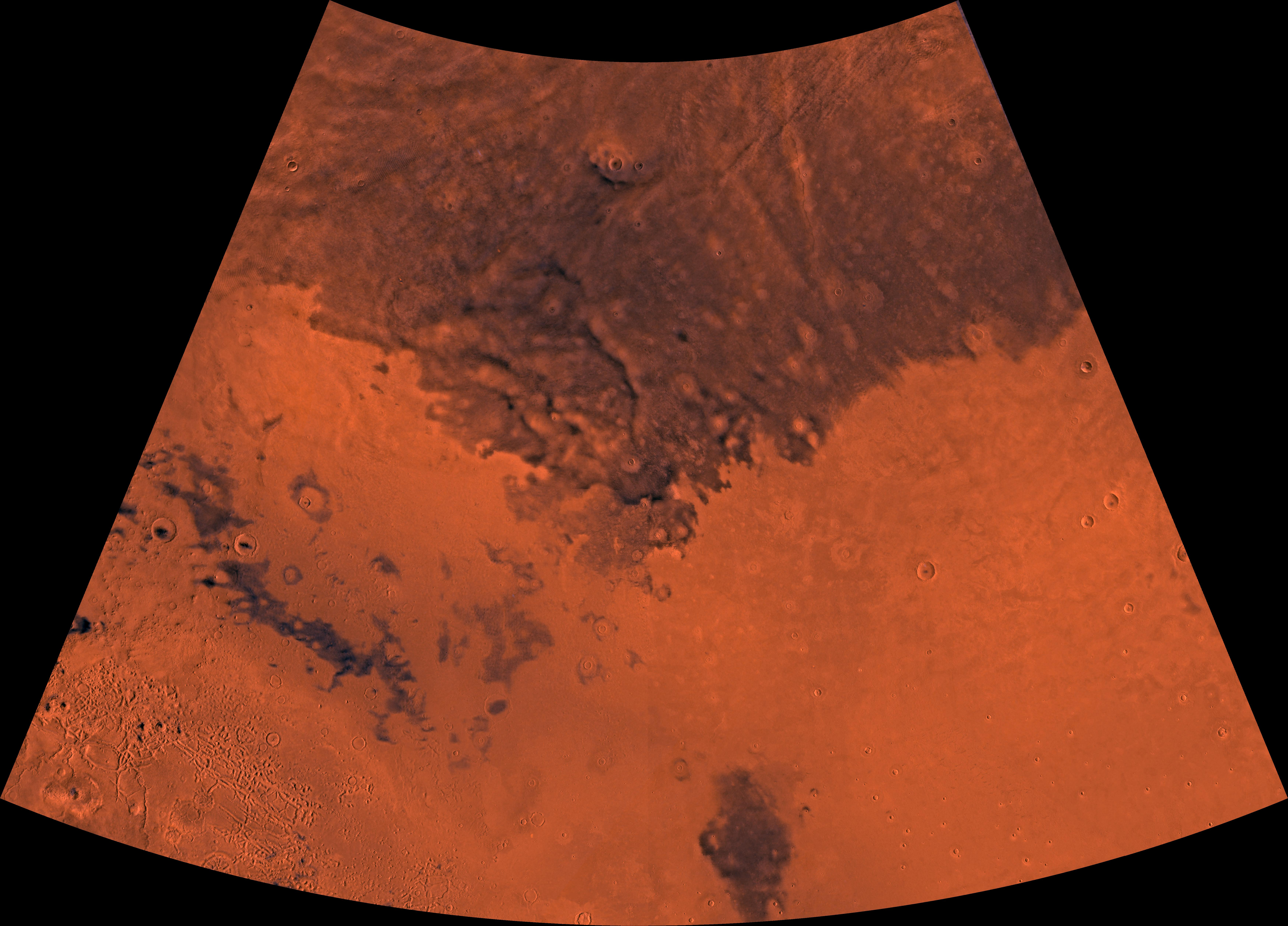 PIA00166: MC-6 Casius Region Mars digital-image mosaic merged with color of the MC-6 quadrangle, Casius region of Mars. Except for the highly dissected southwestern part, which contains faults, mesas, and buttes of Nilosyrtis Mensae, the Casius region is dominated by light-colored and dark, relatively smooth plains. Latitude range 30 to 65 degrees, longitude range -120 to -60 degrees.